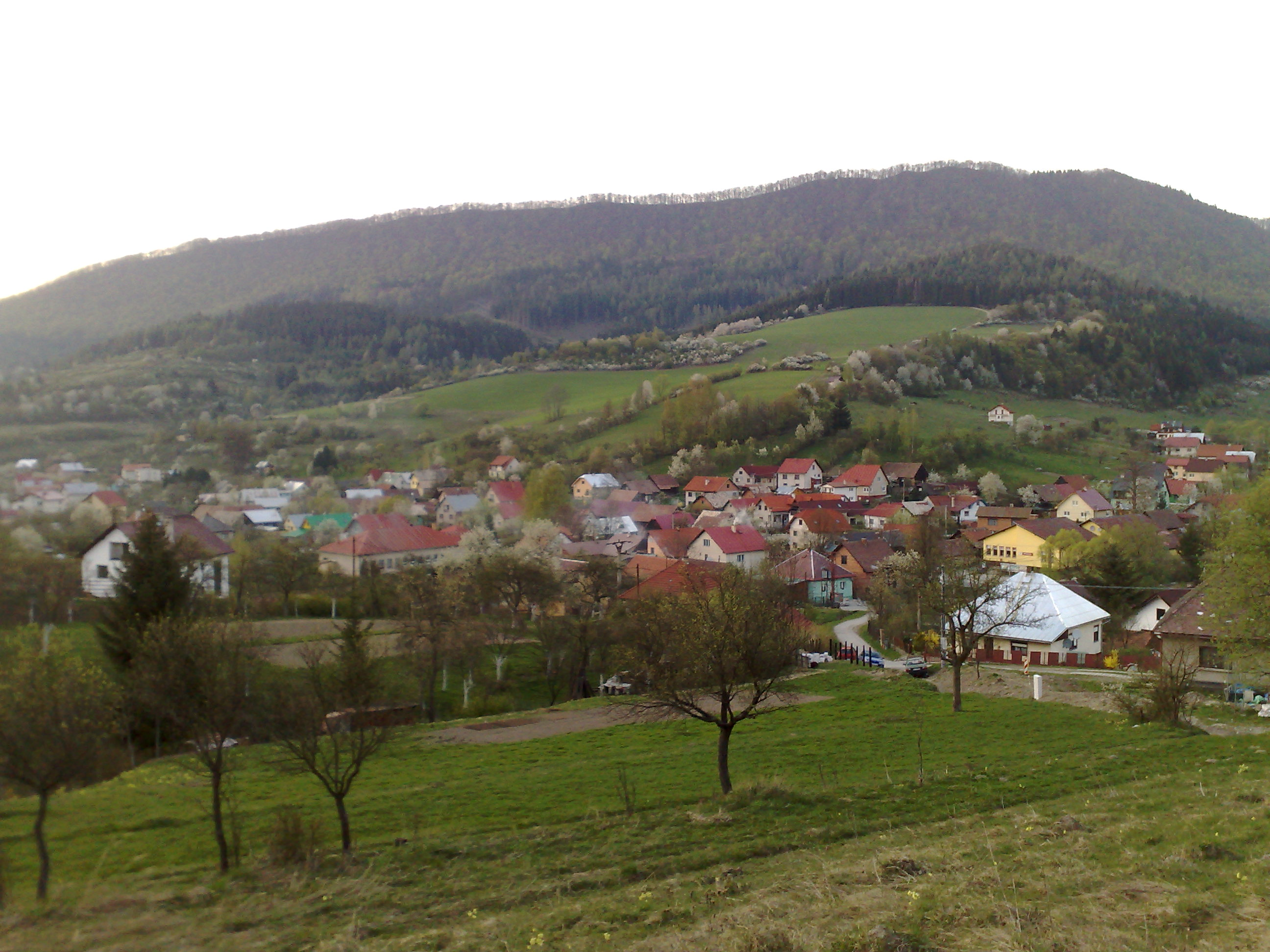 Dolny Vadicov - village 2